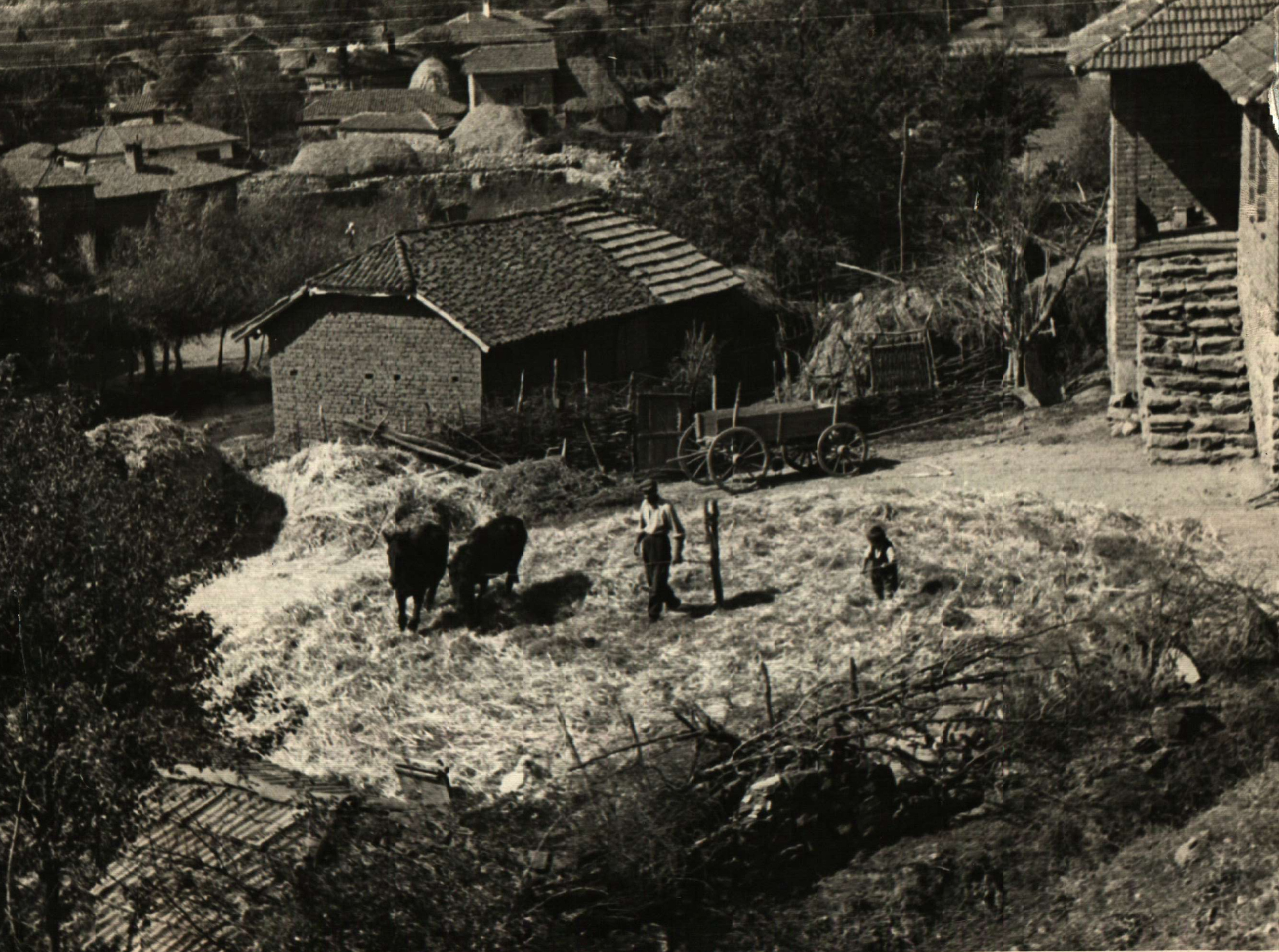 Threshing by horses in Bulgaria.